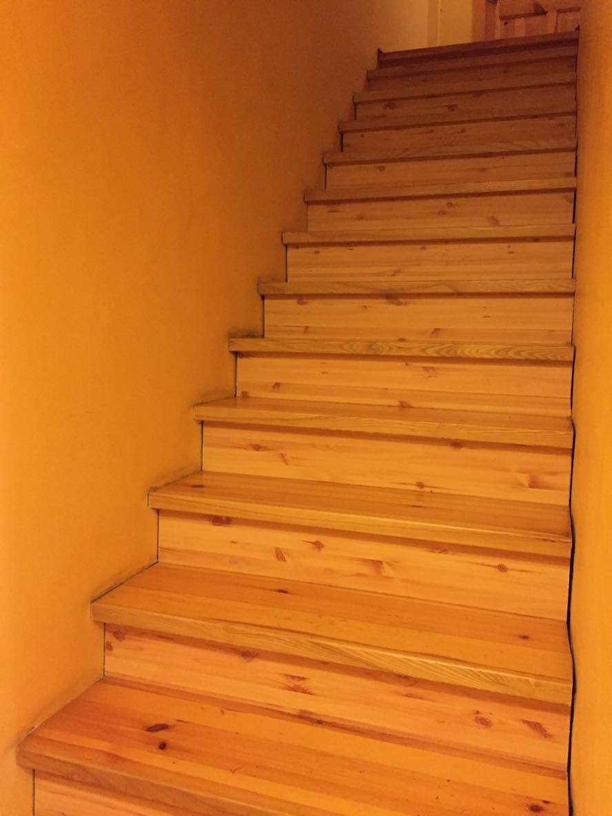 Wooden stairs